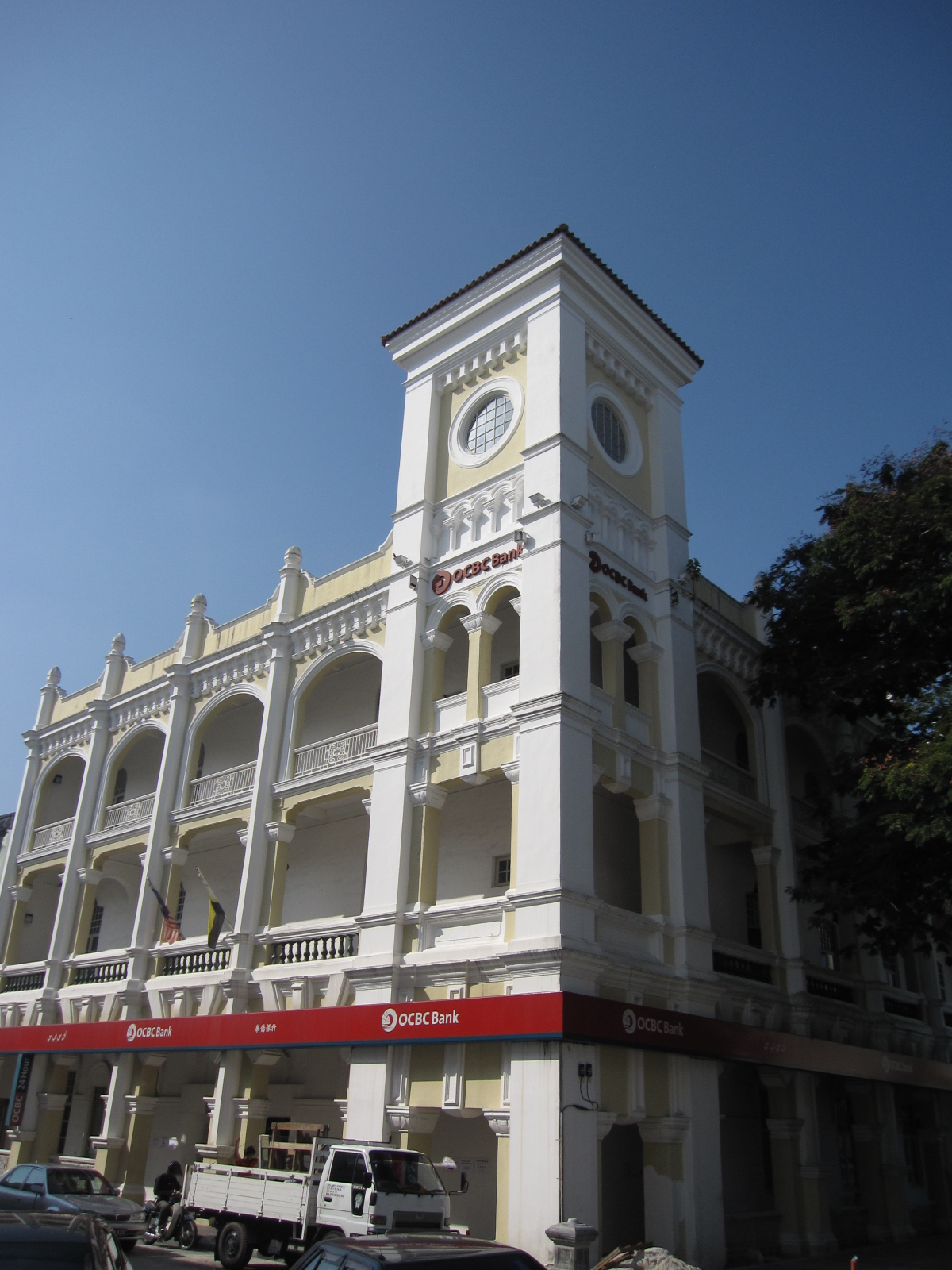 The OCBC building in Ipoh. Many of the ostentatious commercial buildings in Ipoh still house banks, Ipoh.